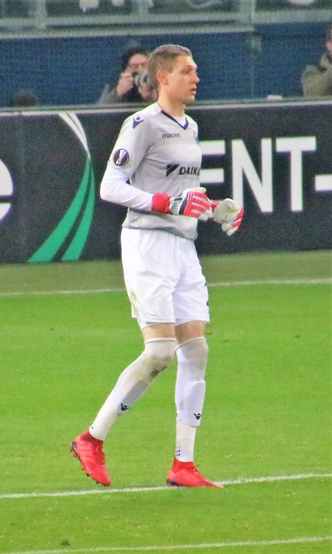 UEFA Euro League round of 32